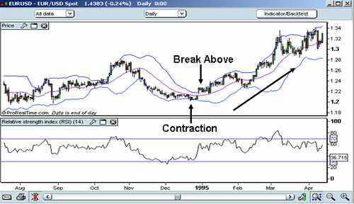 Bollinger bands.